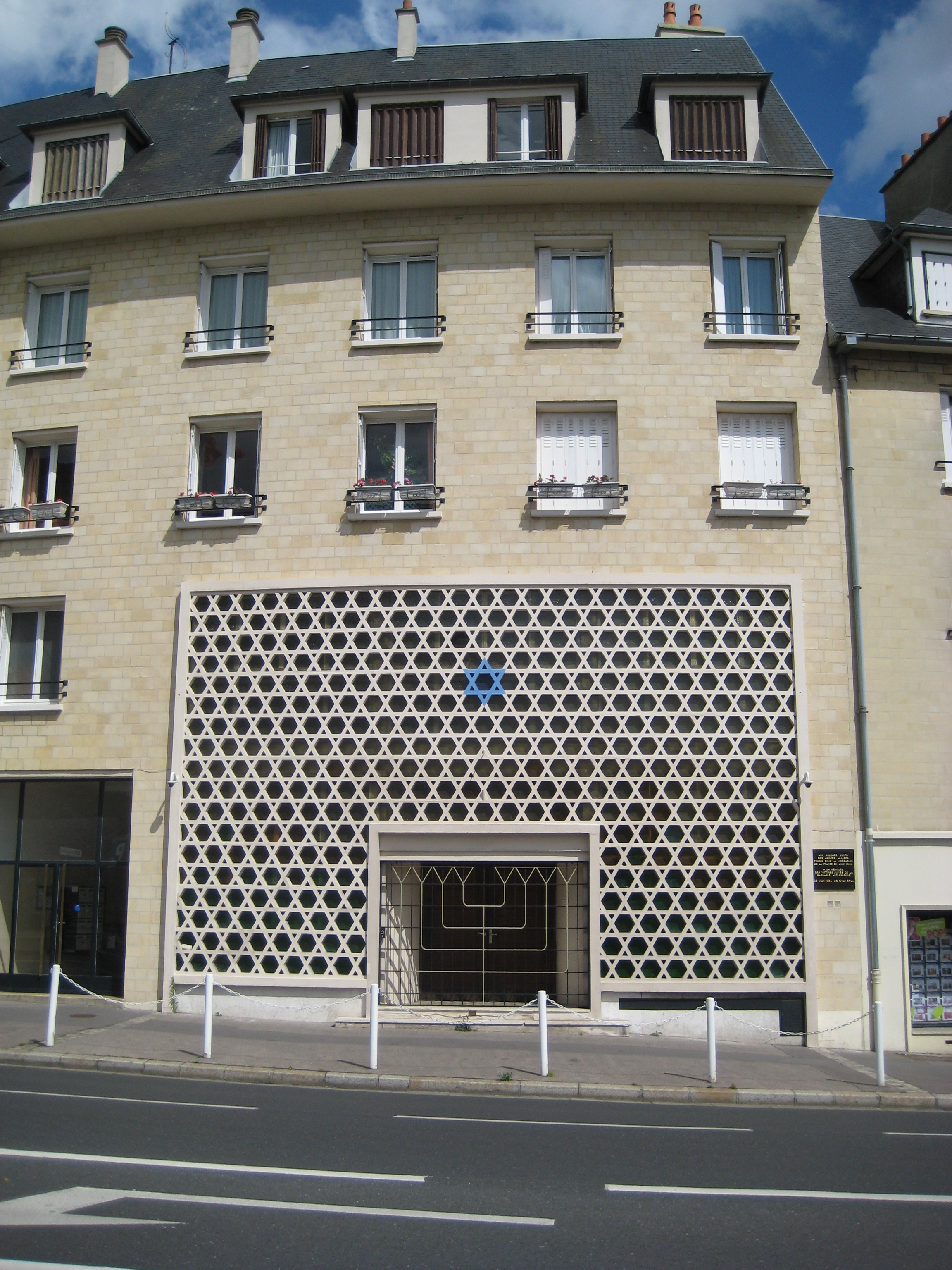 Caen, Calvados, France : synagogue, built in 1966 principally with funds from the American Jewish Joint Distribution Committee